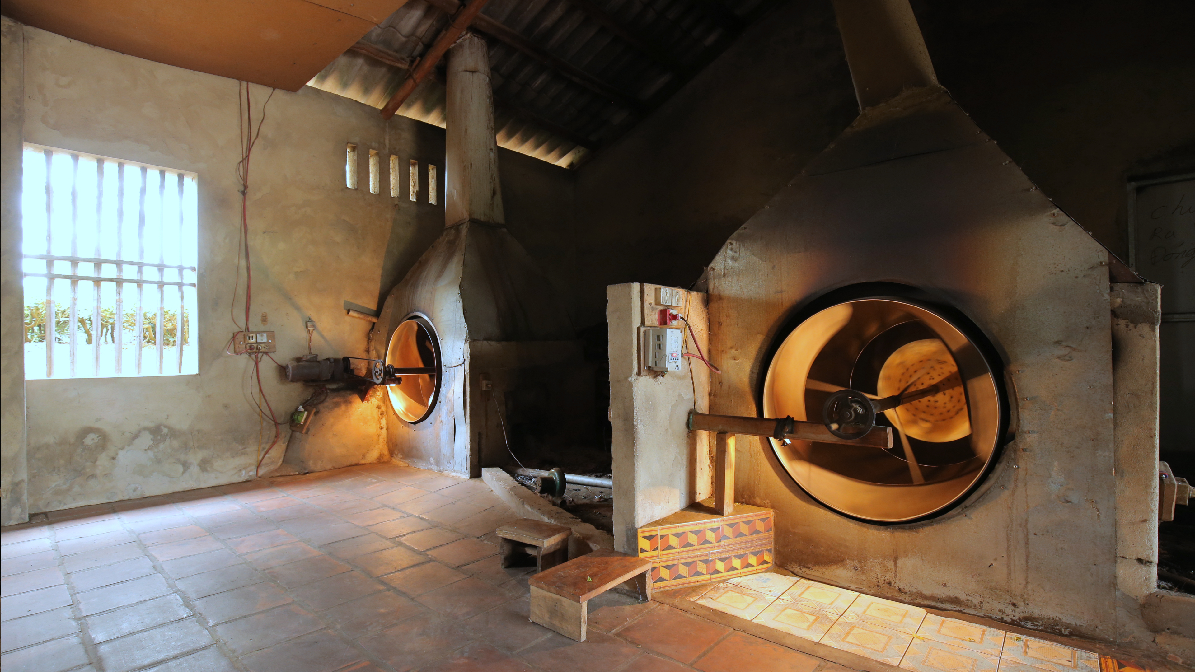 Mixing oven for drying of tea leaves.